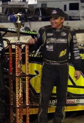 Brett Hearn at ESW 2012